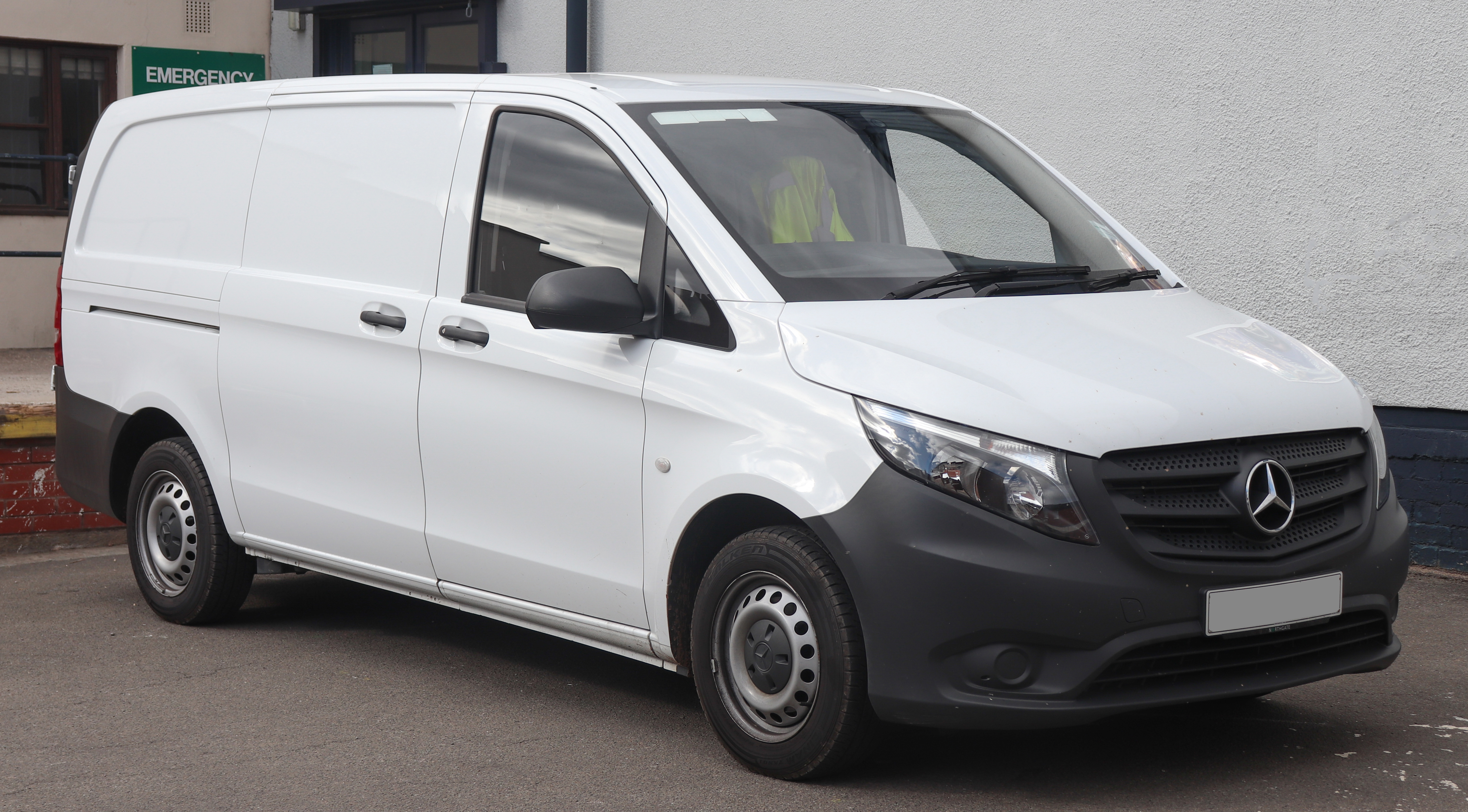 2017 Mercedes-Benz Vito 111 CDi 1.6 Taken in Leamington Spa